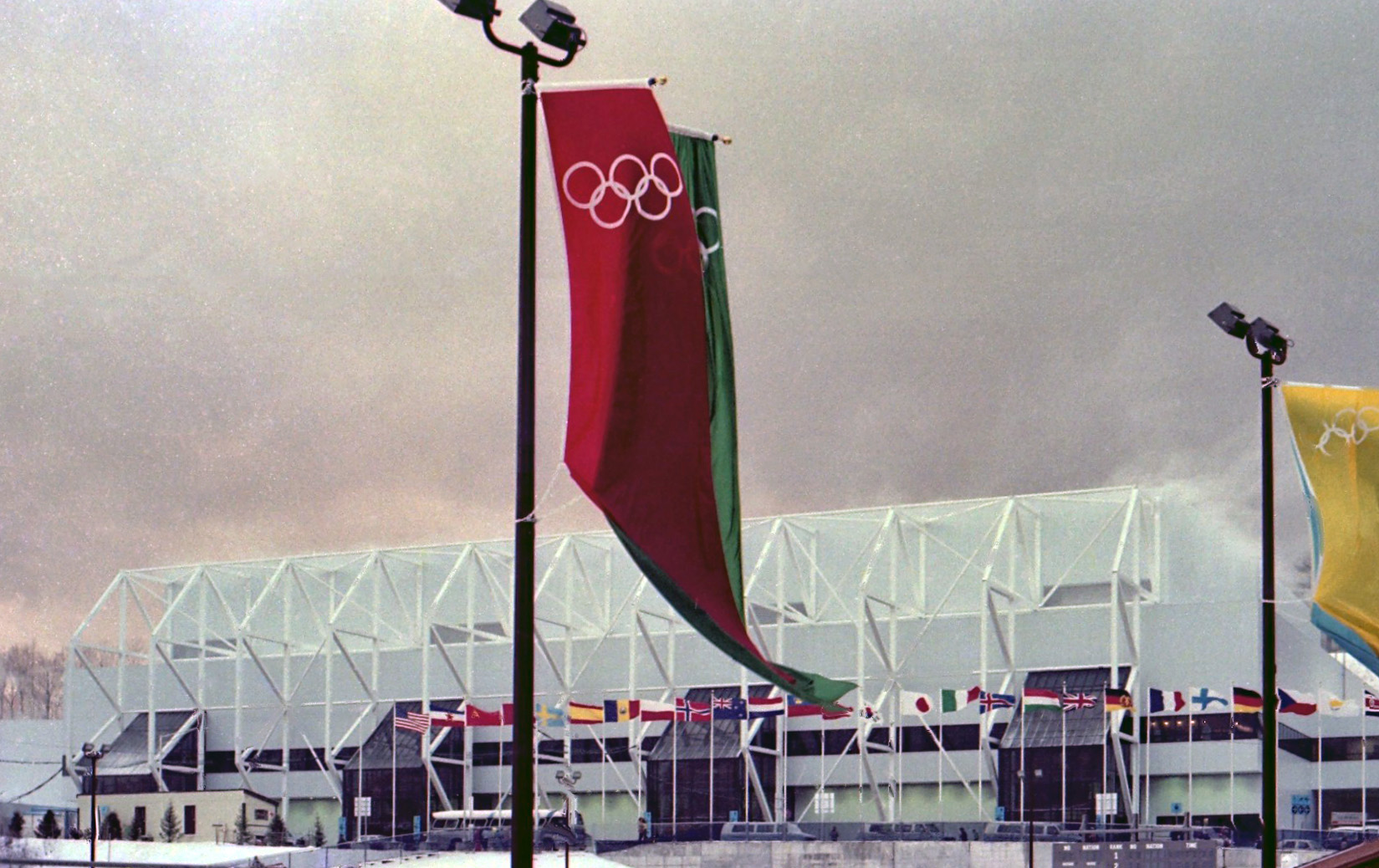 The arena where the figure skating events were held.